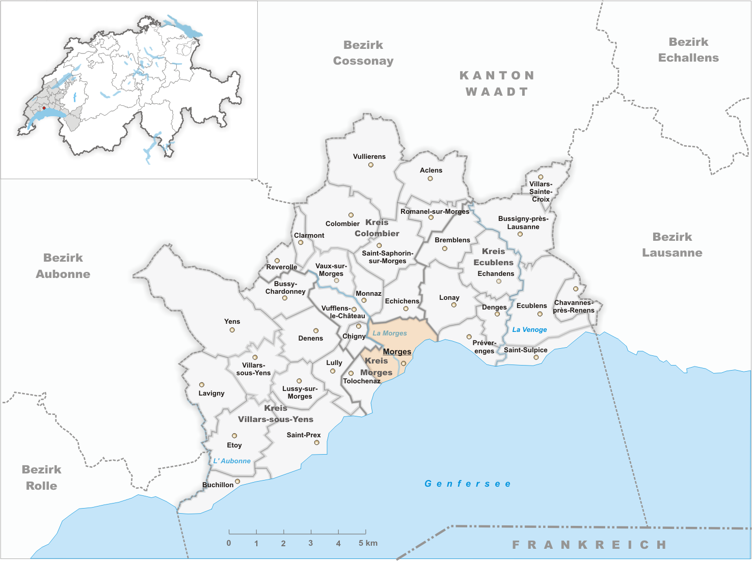 Municipality Morges